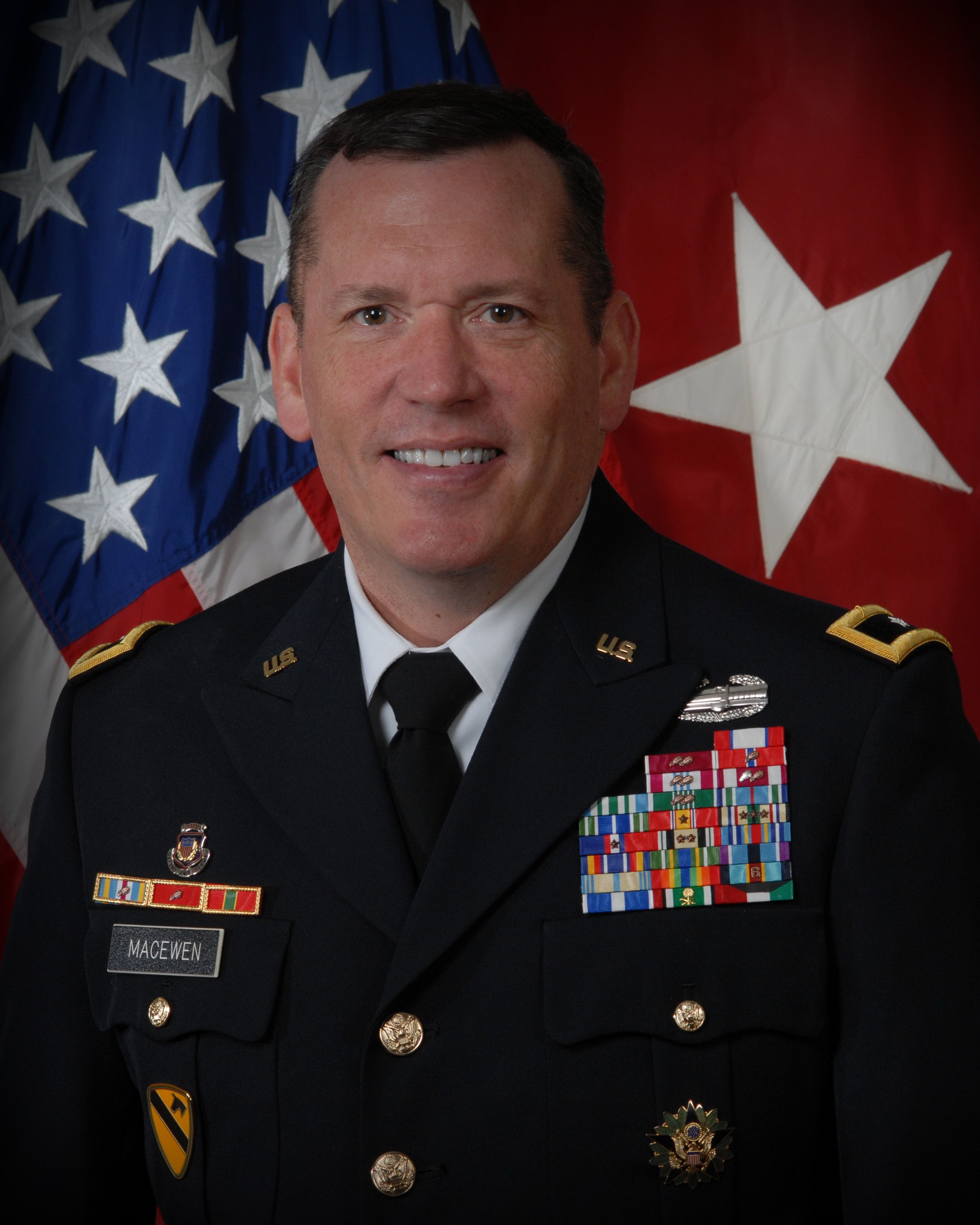 Photo of Brigadier General David MacEwen